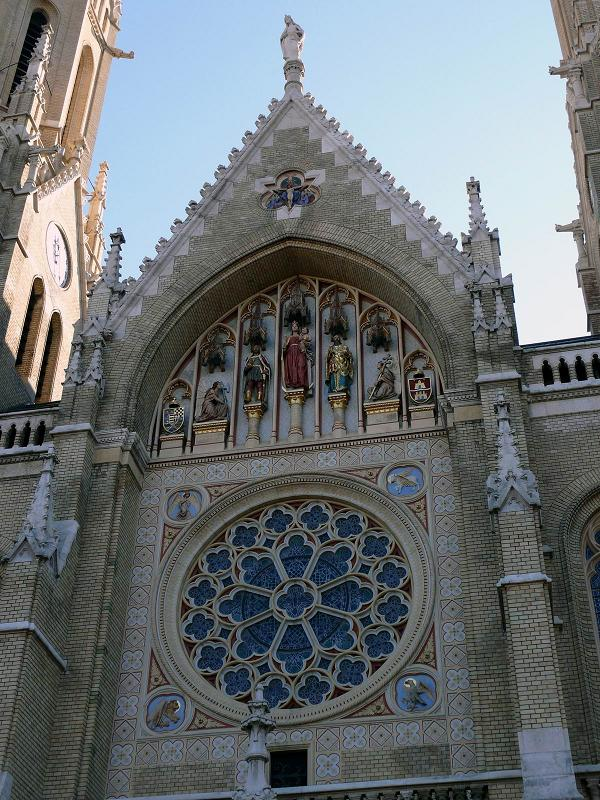 The St Elisabeth Church in Budapest